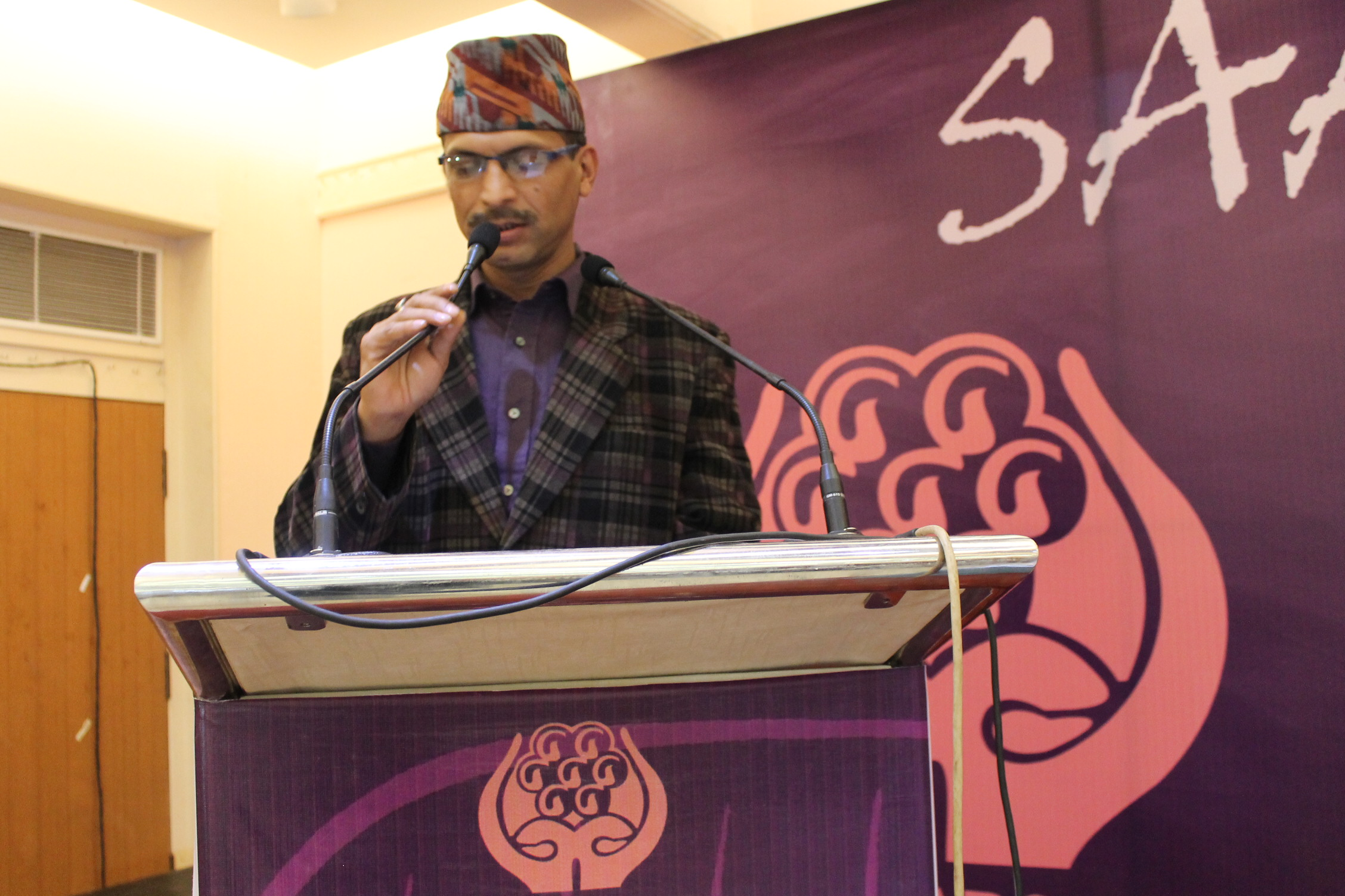 Nepali poet Suman Pokhrel reciting his poem during SAARC Festival of Literature 2015